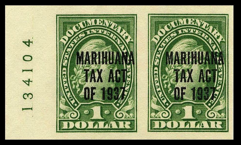 Image of Marihuana revenue stamp $1 1937 issue